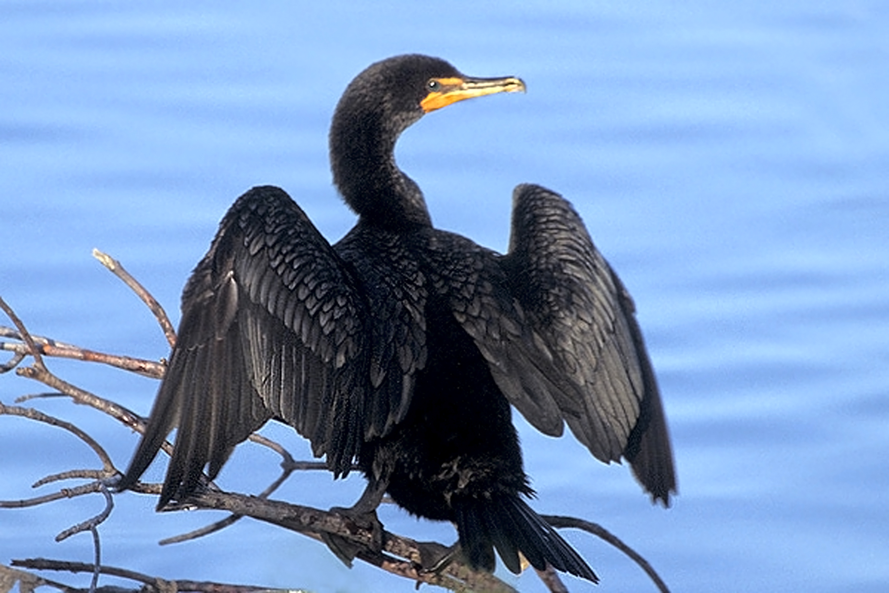 Double-crested Cormorants are diving birds without oil glands since oil would give them bouyancy and make diving difficult; therefore, they must sun their wings to dry them after fishing.